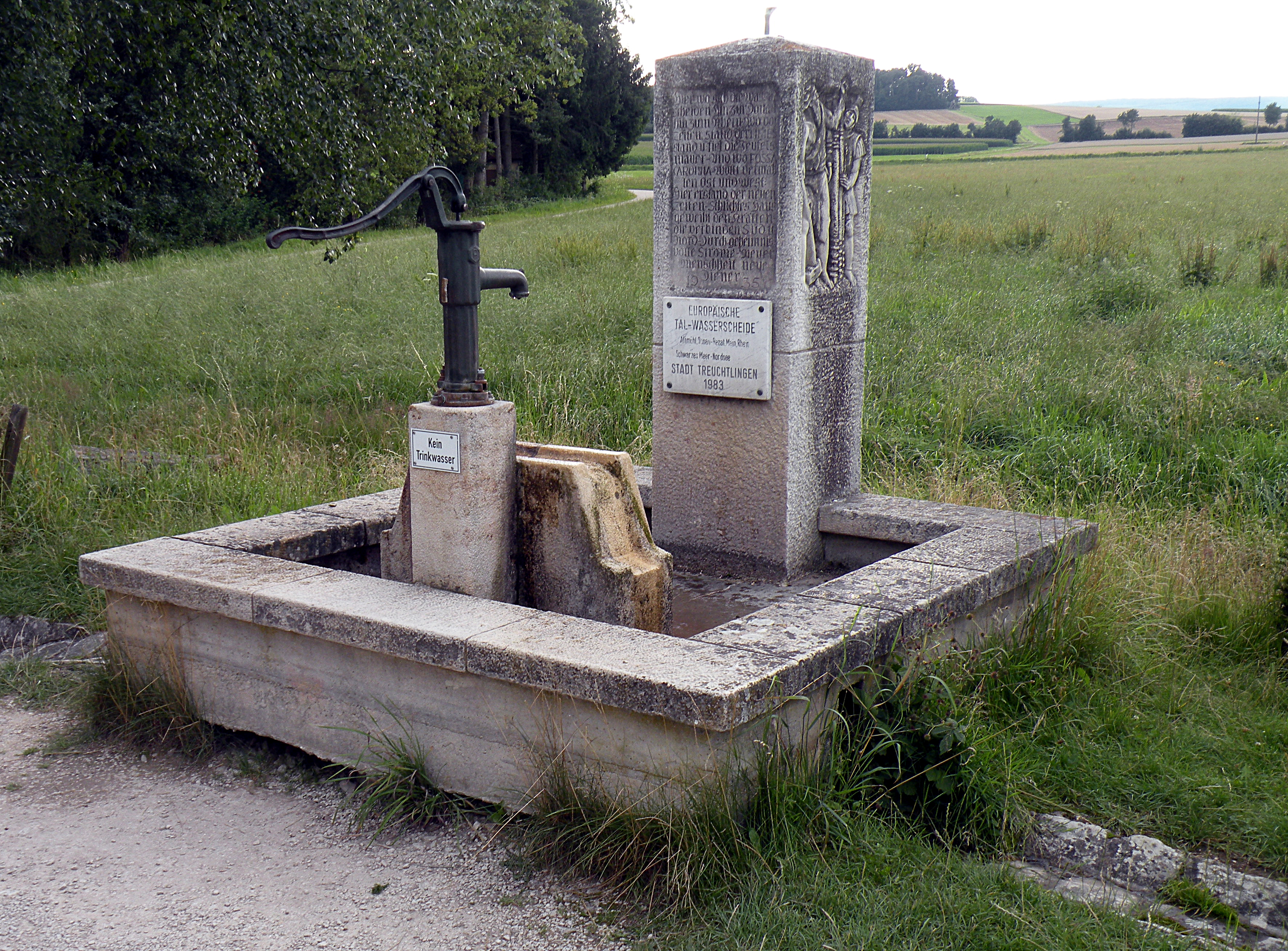 Fossa Carolina.Water well